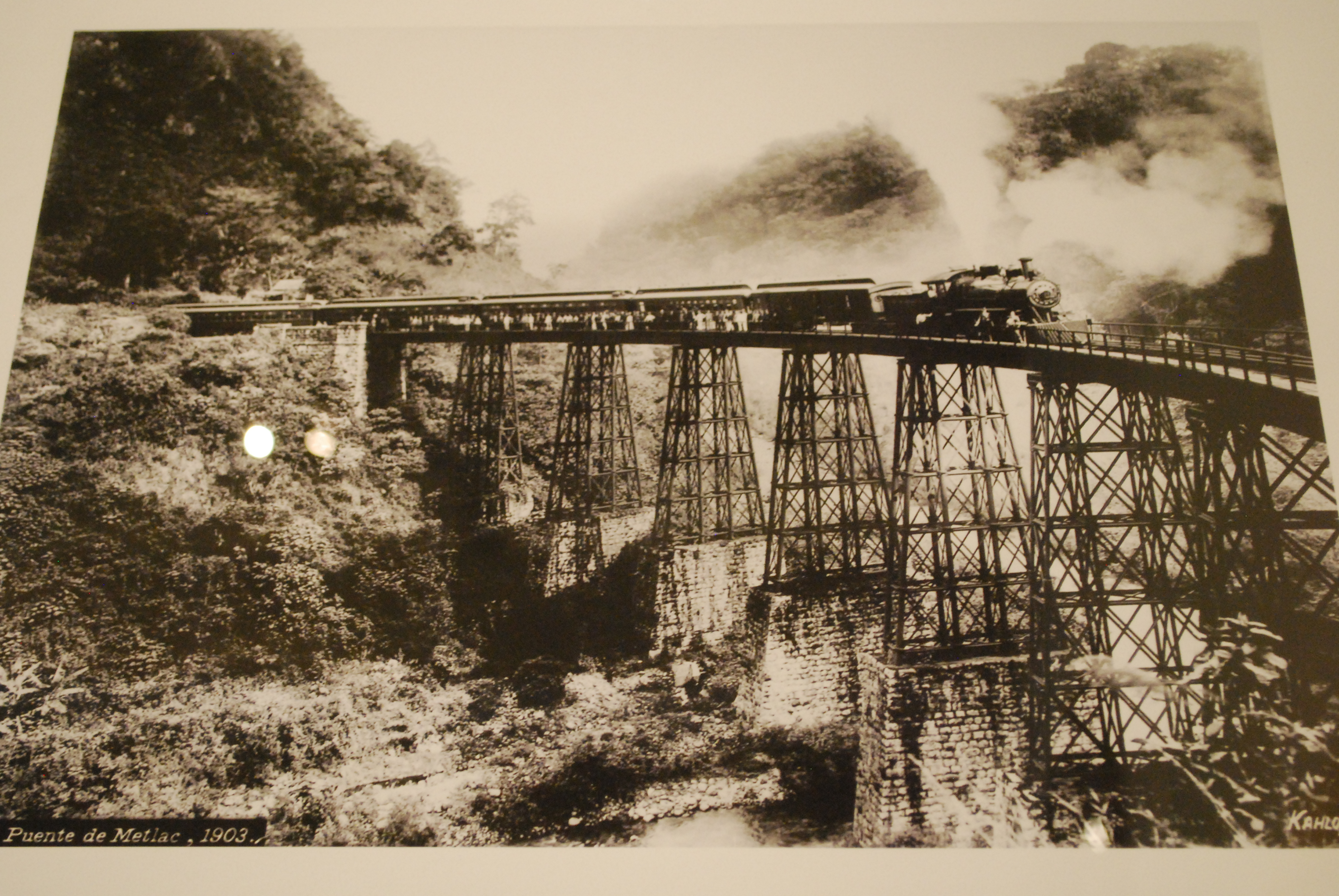 Metlac bridge with train 1903, taken by Guillermo KahloObject location18° 54′ 53.64″ N, 97° 00′ 33.84″ W